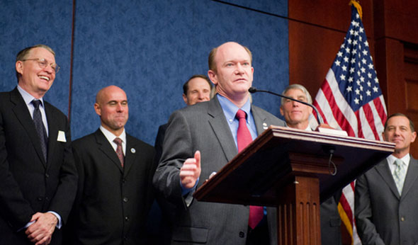 United States Senator Chris Coons of Delaware